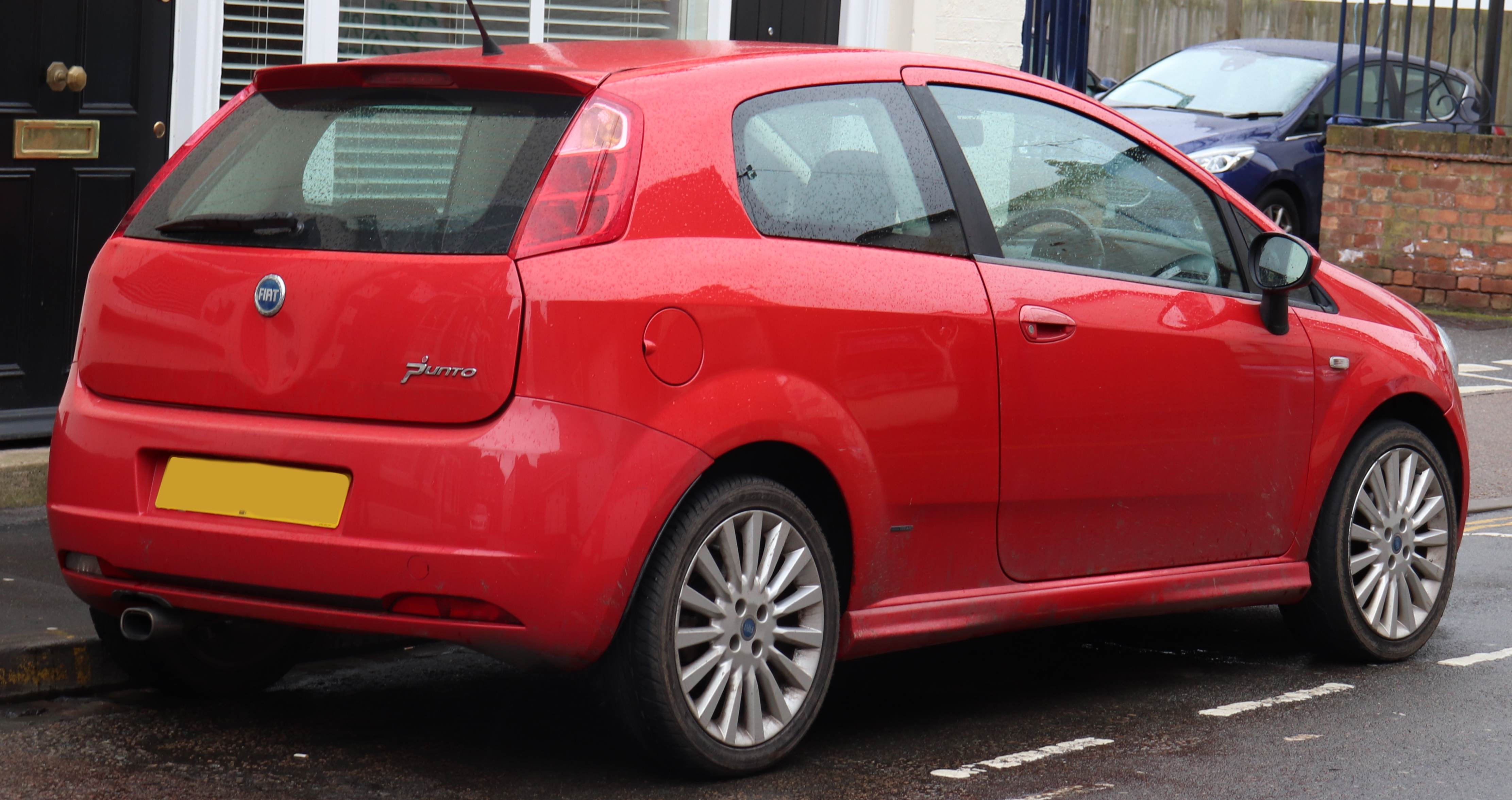 2006 Fiat Grande Punto Sporting T-J 1.4 Rear Taken in Warwick